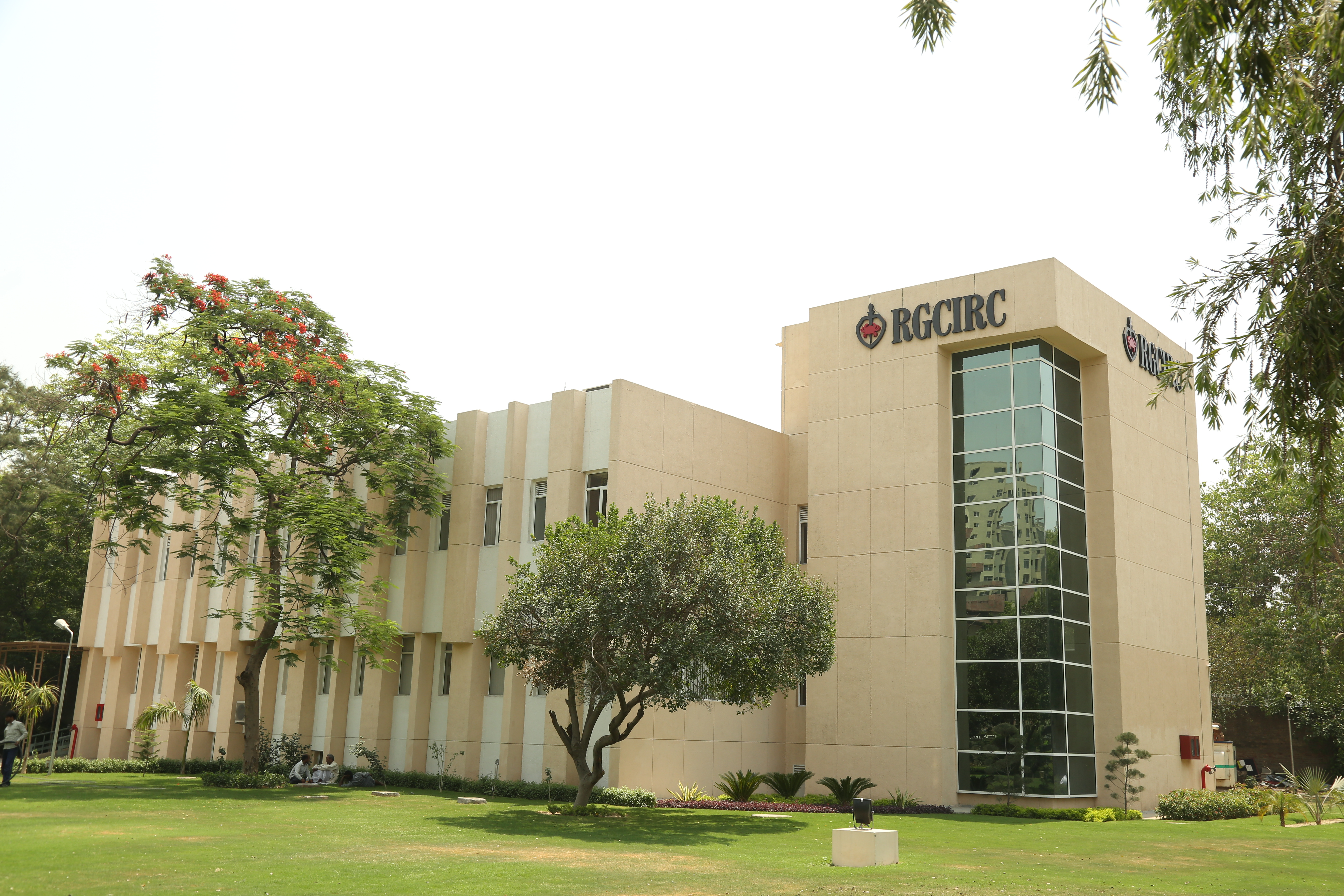 RGCIR 1